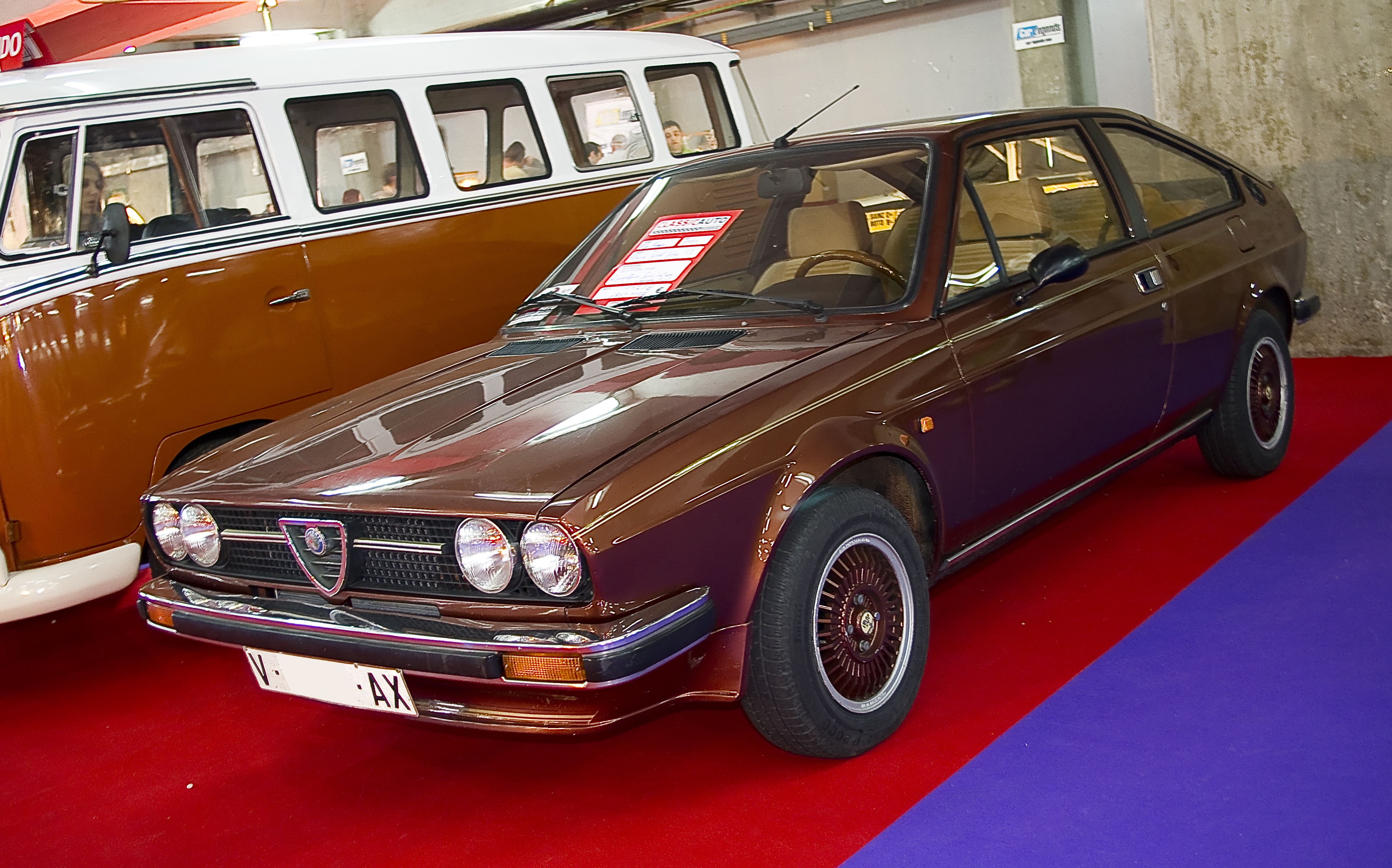 First one I see this old. Lovely car!